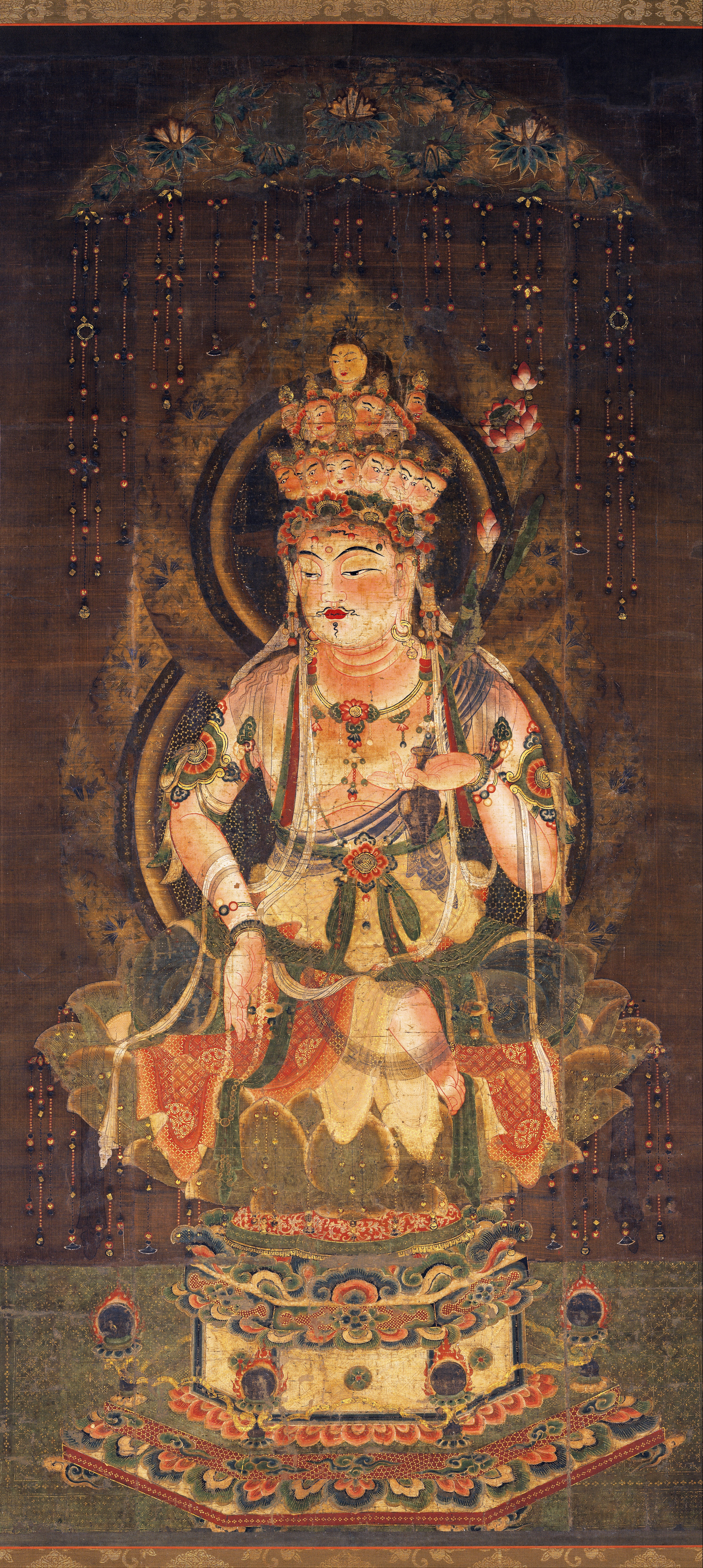 Eleven-faced Goddess of Mercy (絹本著色十一面観音像, kenpon choshoku jūichimen kannonzō). Hanging scroll. Color on silk. Located in the Nara National Museum, Nara, Japan.